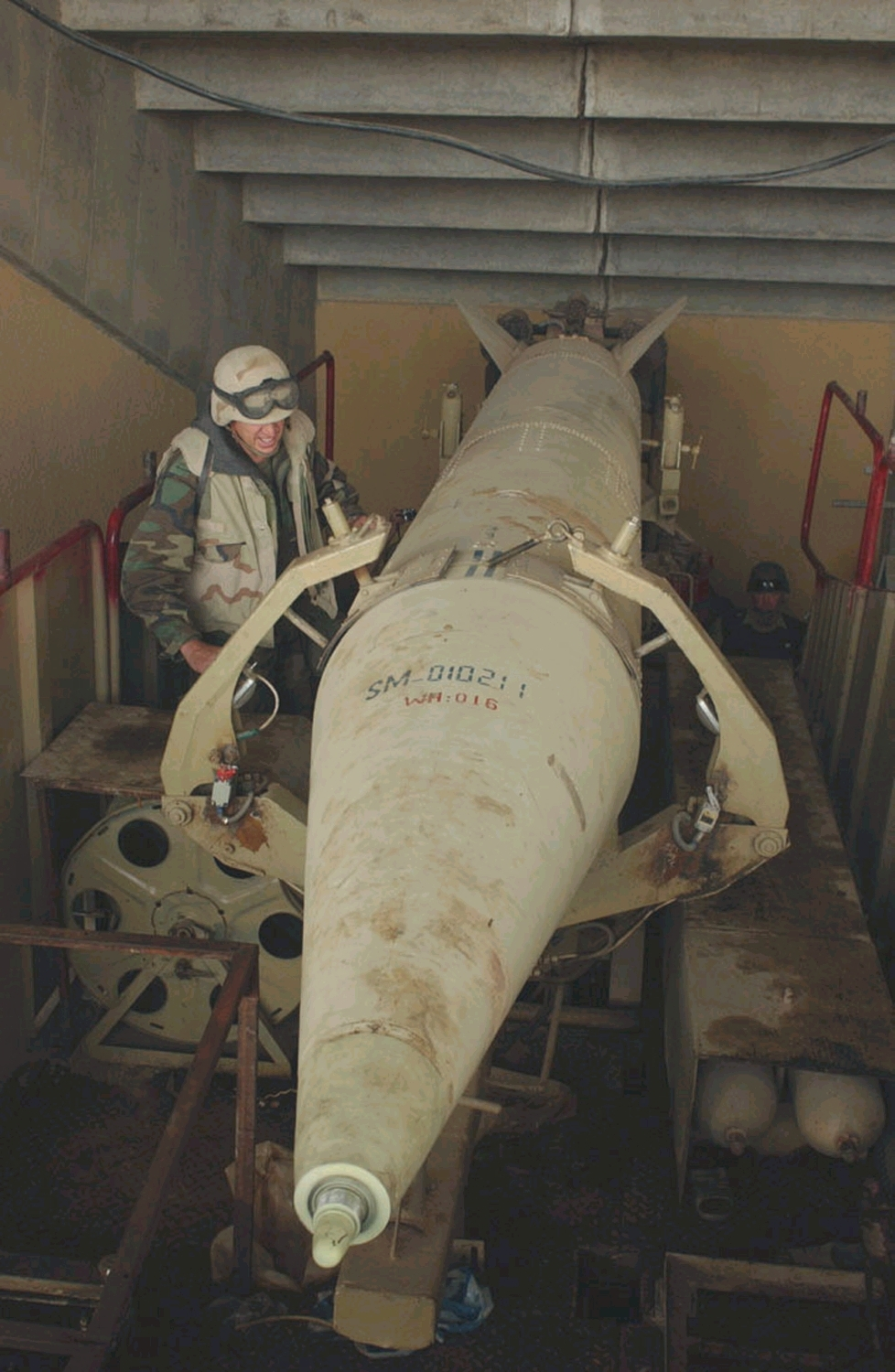 A US soldier examines a hidden Al Samoud missile near Amarah, Southern Iraq.